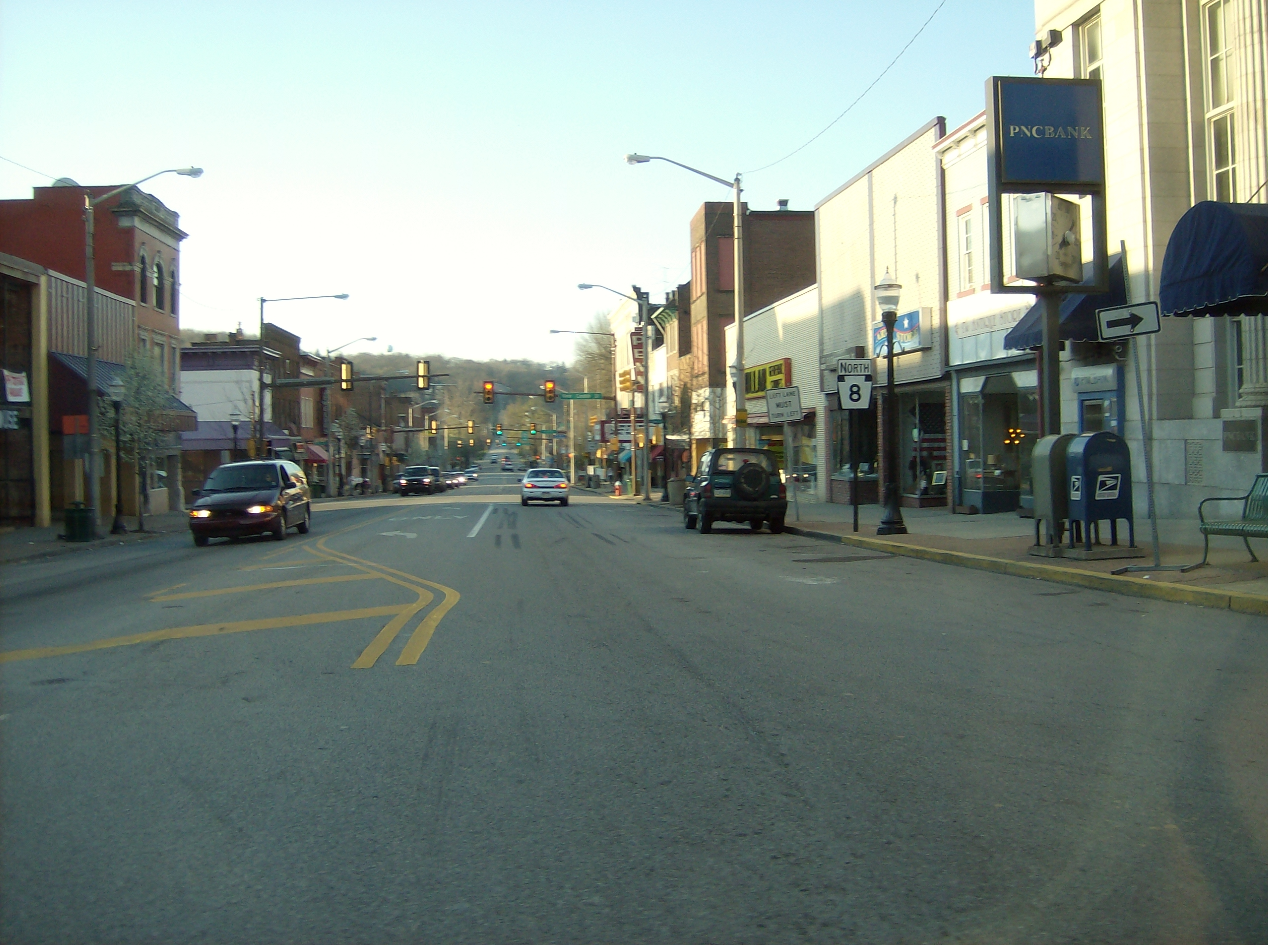 Along Pennsylvania Route 8 in Butler, Pennsylvania, United States. Picture taken looking southward from the New Castle Street intersection, within the Butler Historic District.